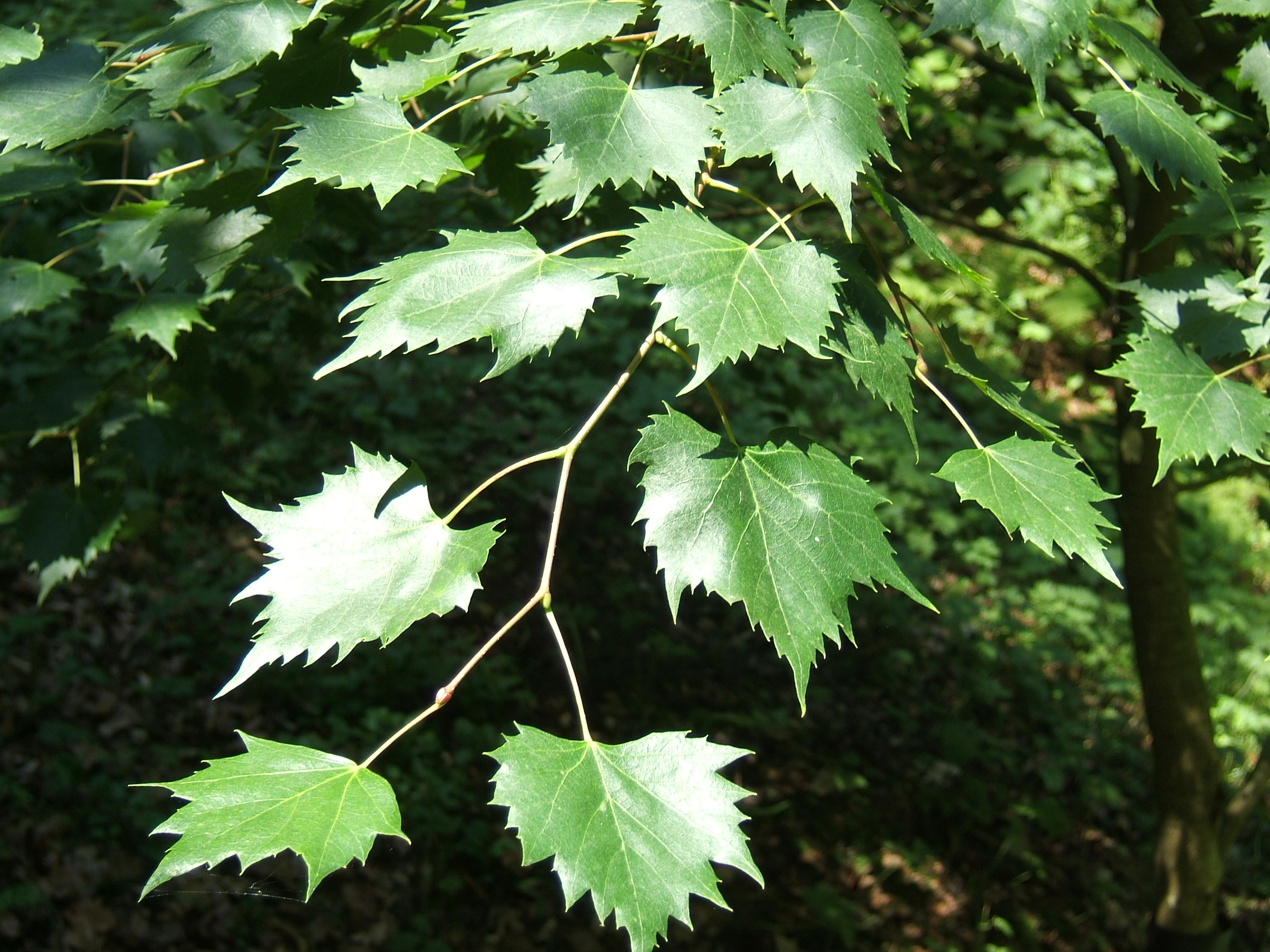 Tilia mongolica, cultivated, Wallington Hall, Northumberland, UK